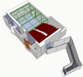 3D model of the Tabard Theatre layout